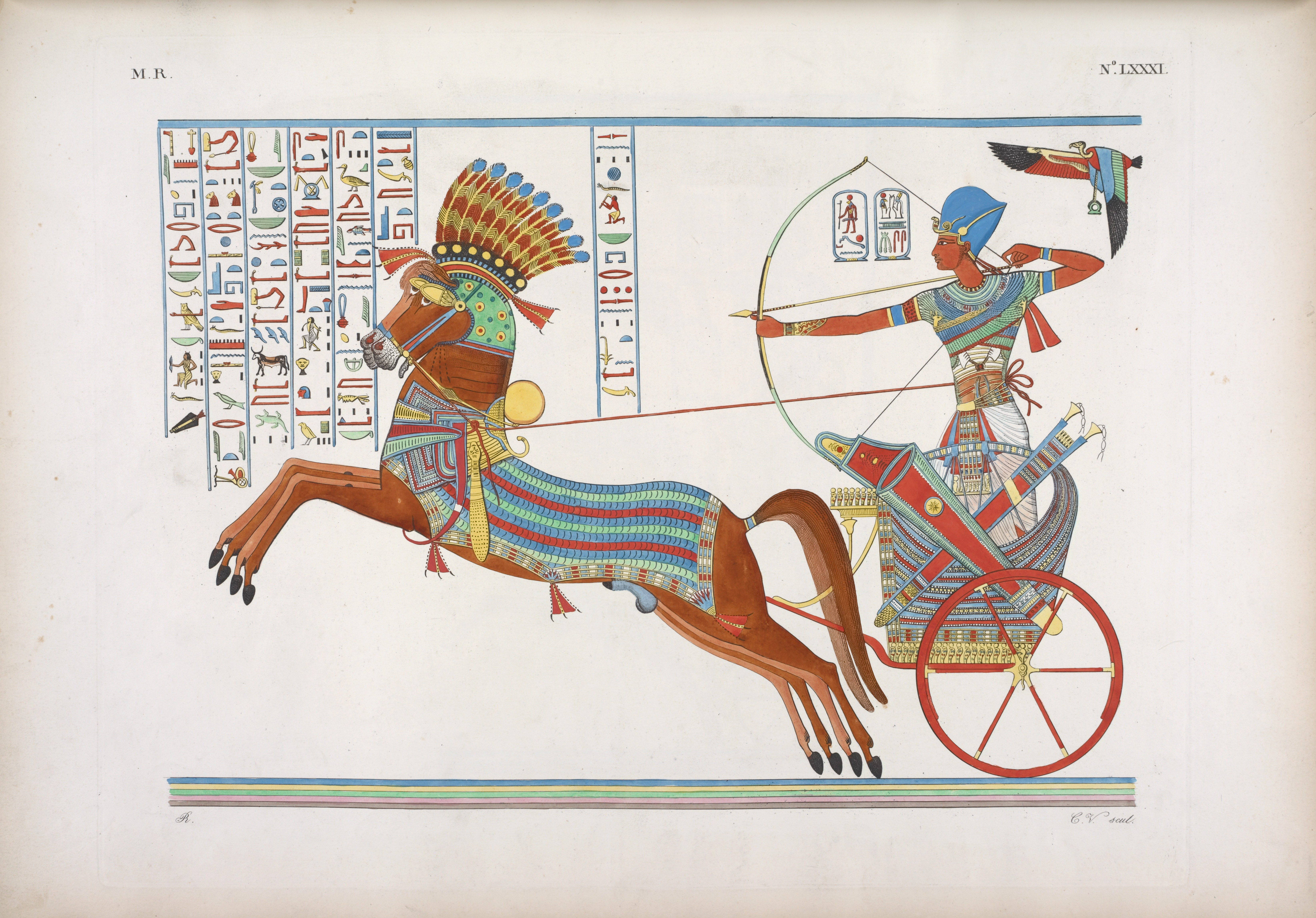 For Ramses III read Ramsès II / L'Égypte antique illustrée de Champollion et Rosellini. (Paris 1933, p. 96).